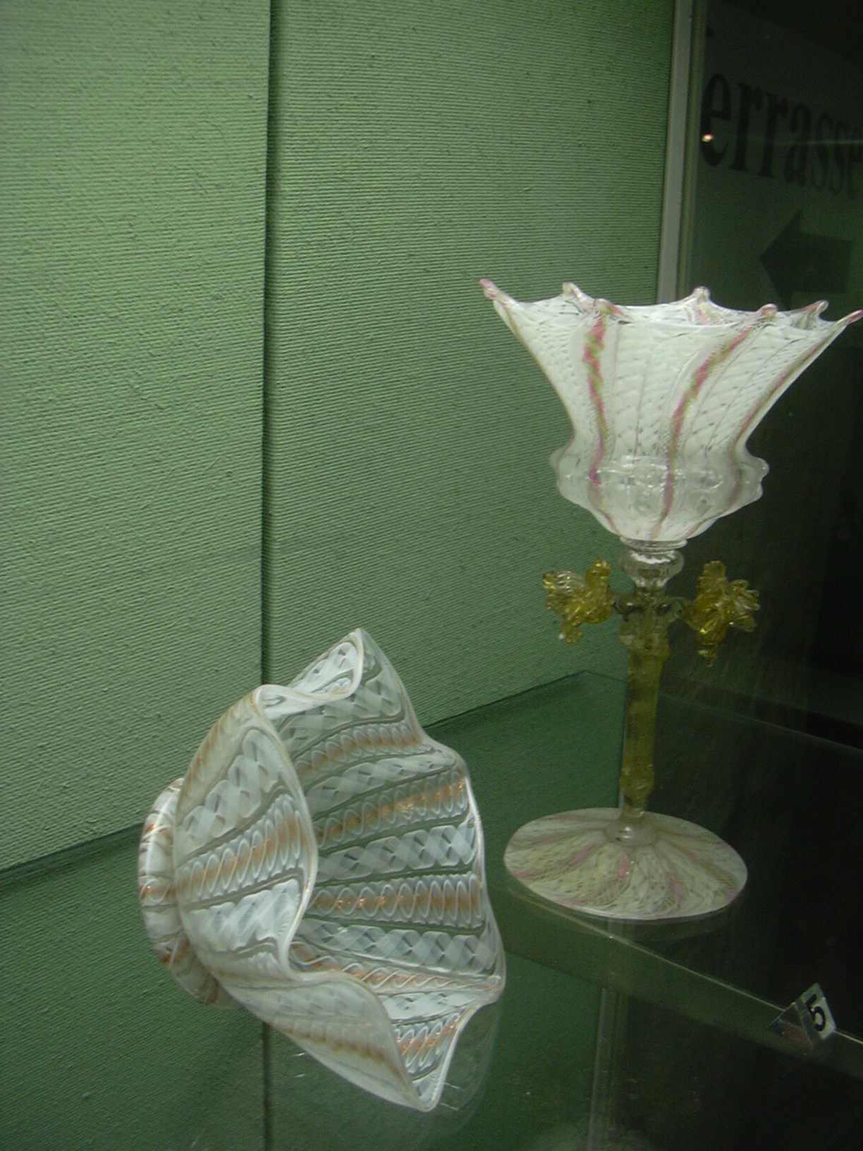 Reticella glass, Venetian style, 17th century